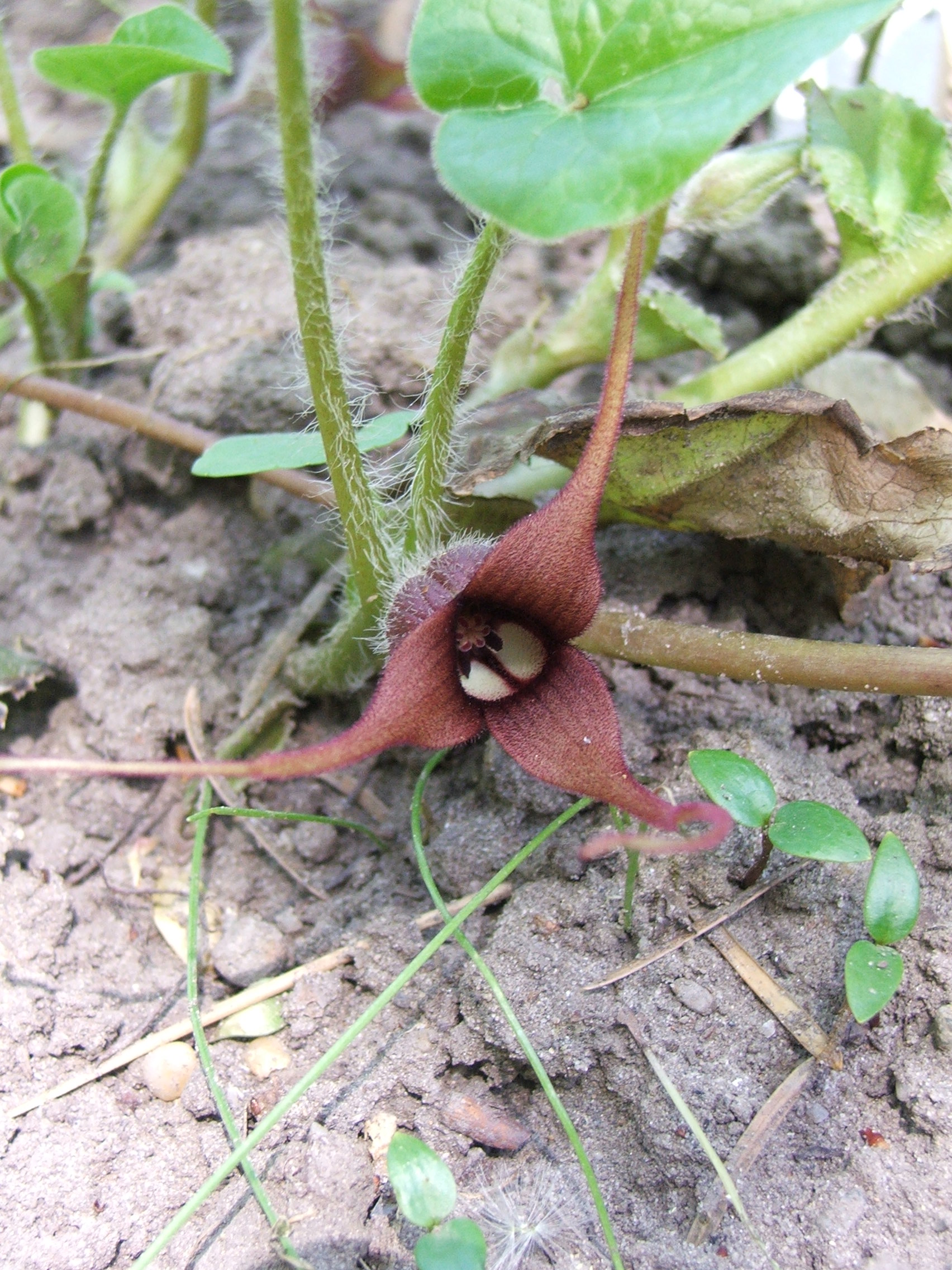 Asarum caudatum Lindl. MTA Botanic Garden Vácrátót, Hungary.